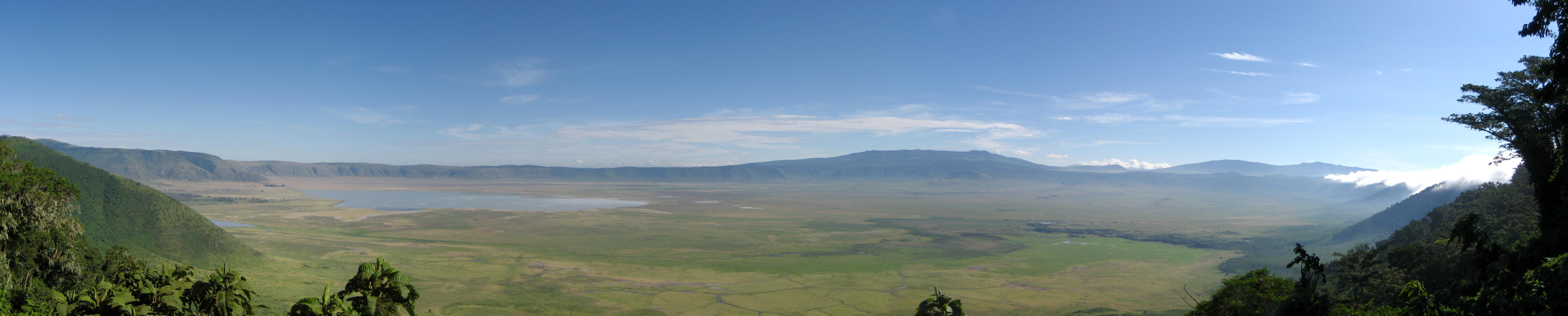 Overlook on the rim of Ngorongoro Crater, Tanzania